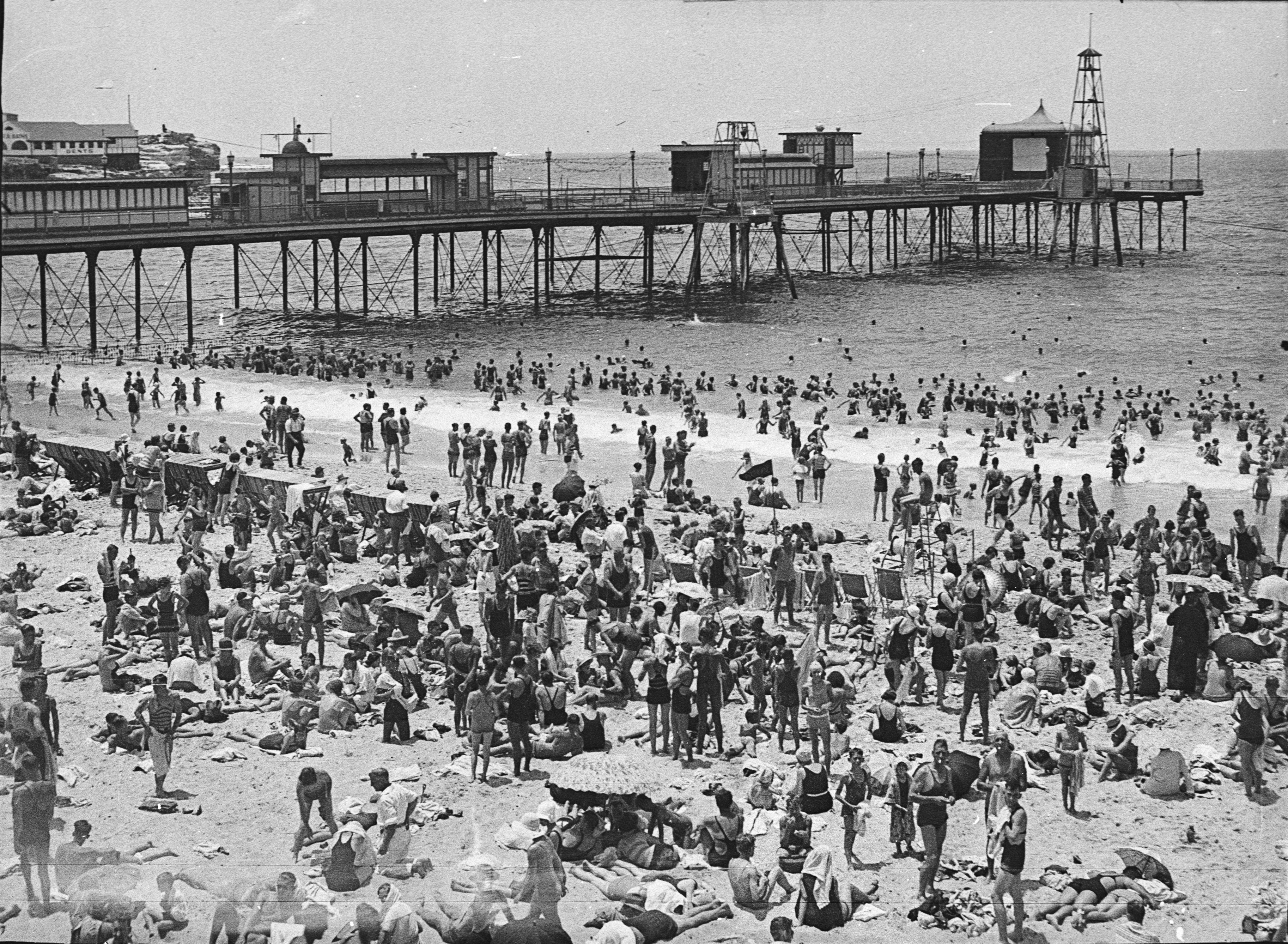 An old fashion picture of the Coogee Pier dated 1928. This image is of Australian origin and is now in the public domain because its term of copyright has expired. According to the Australian Copyright Council (ACC), ACC Information Sheet G023v16 (Duration of copyright) (Feb 2012). Type of materialCopyright has expired if ... A Photographs or other works published anonymously, under a pseudonym or the creator is unknown:taken or published prior to 1 January 1955 B Photographs (except A):taken prior to 1 January 1955 C Artistic works (except A & B):the creator died before 1 January 1955 D Published editions1 (except A & B):first published more than 25 years ago E Commonwealth or State government owned2 photographs and engravings:taken or published more than 50 years ago and prior to 1 May 1969 1 means the typographical arrangement and layout of a published work. eg. newsprint. 2owned means where a government is the copyright owner as well as would have owned copyright but reached some other agreement with the creator. When using this template, please provide information of where the image was first published and who created it.